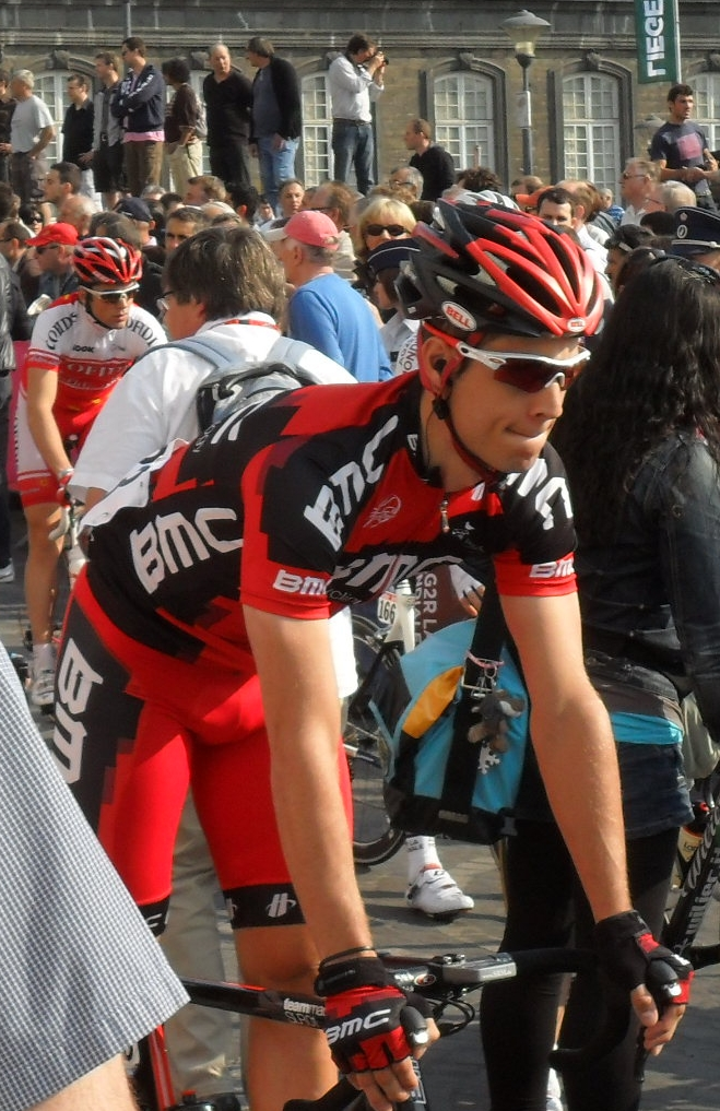 Martin Kohler on Liège-Bastogne-Liège 2011 start line